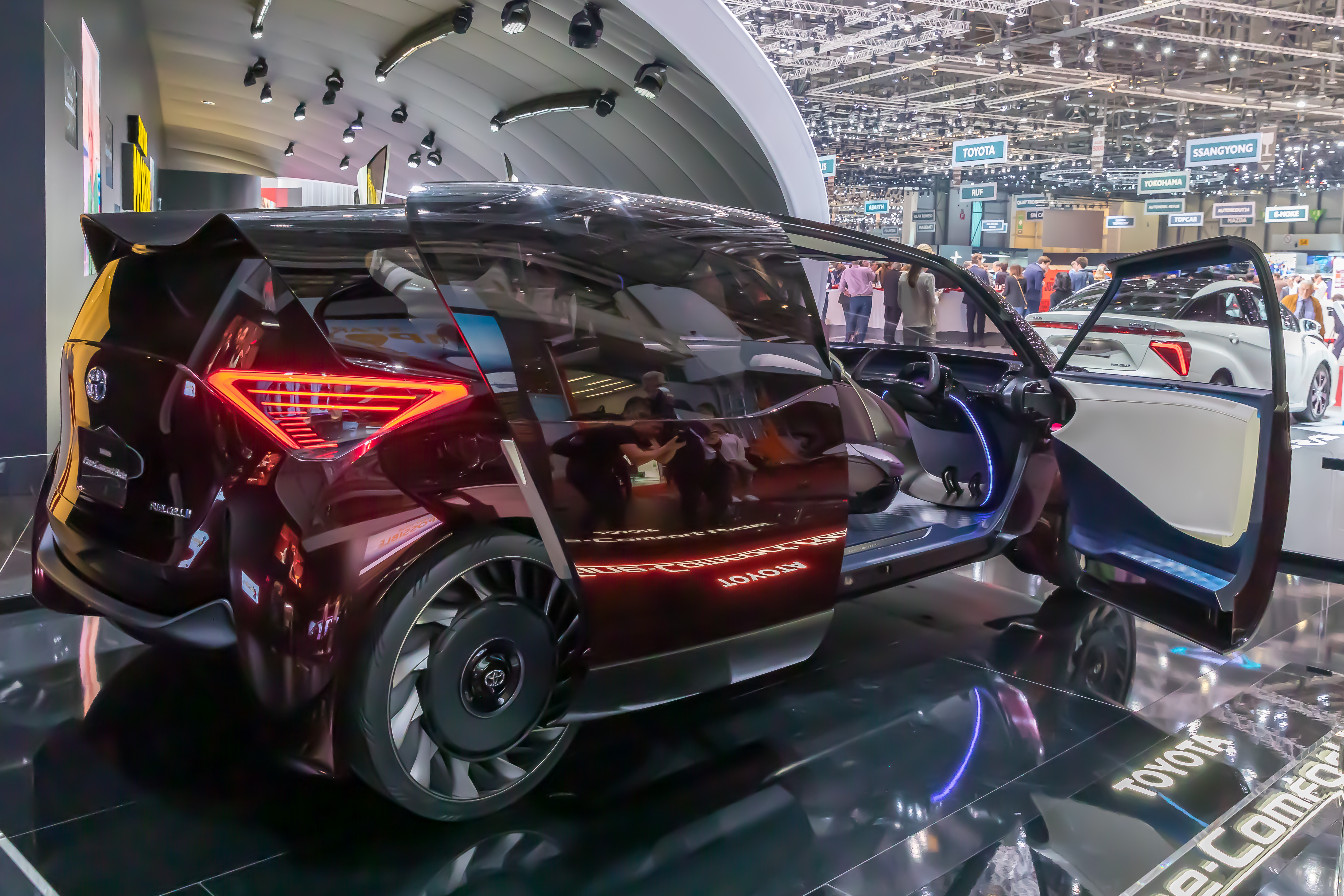 Geneva International Motor Show 2018